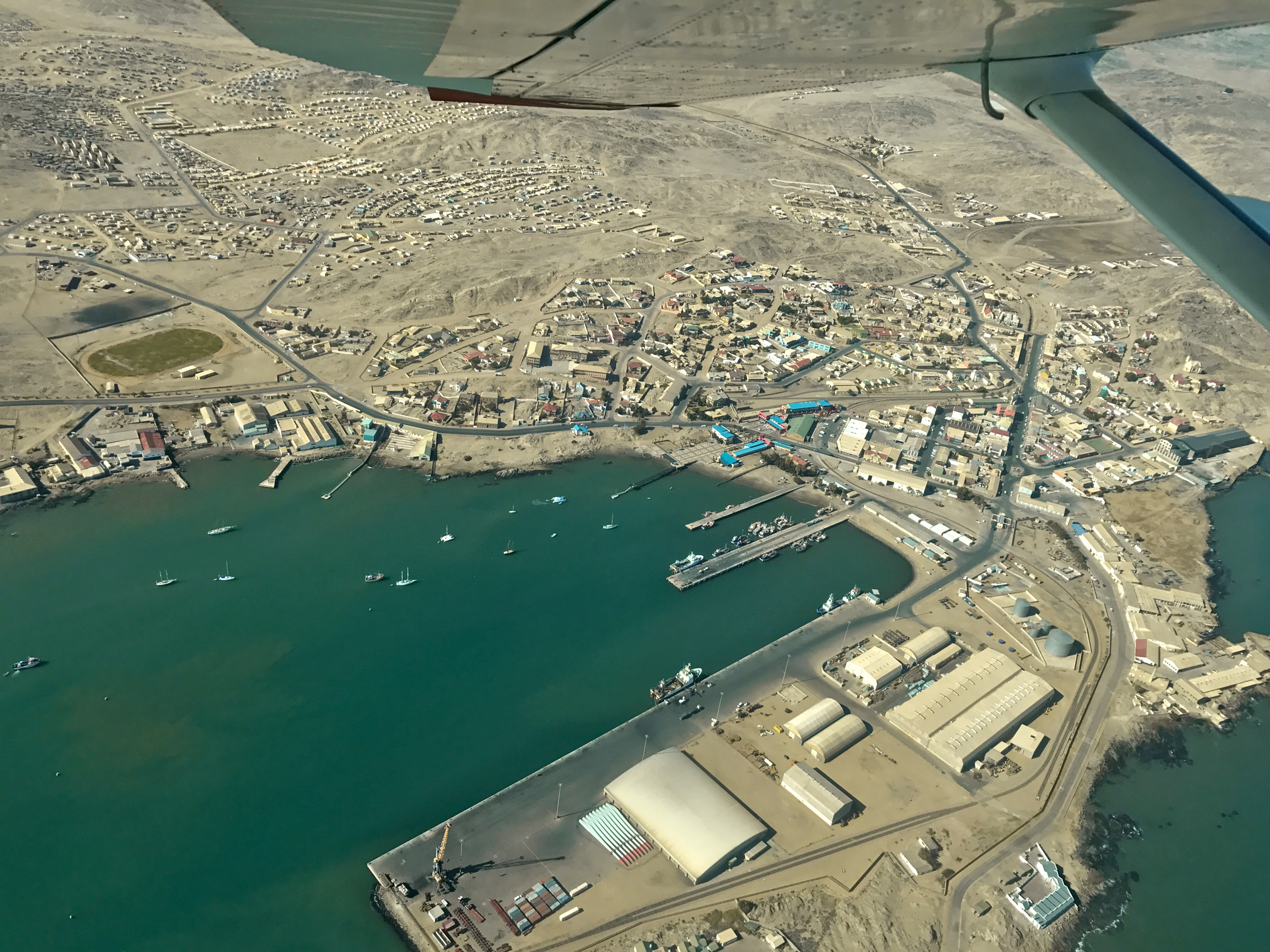 City of Luderitz from Bird's Eye View (May 2017)